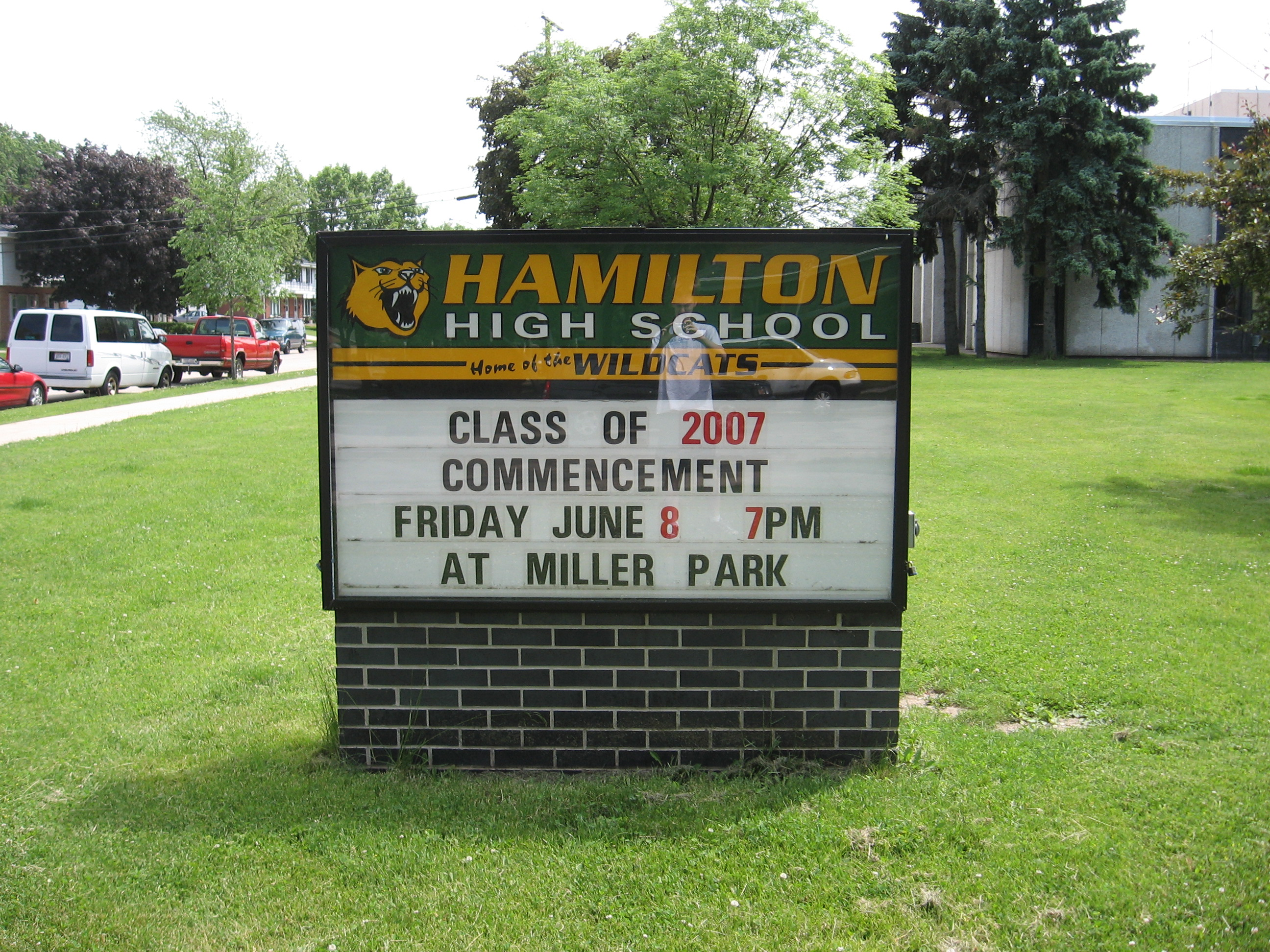 Hamilton High School Milwaukee, Wisconsin